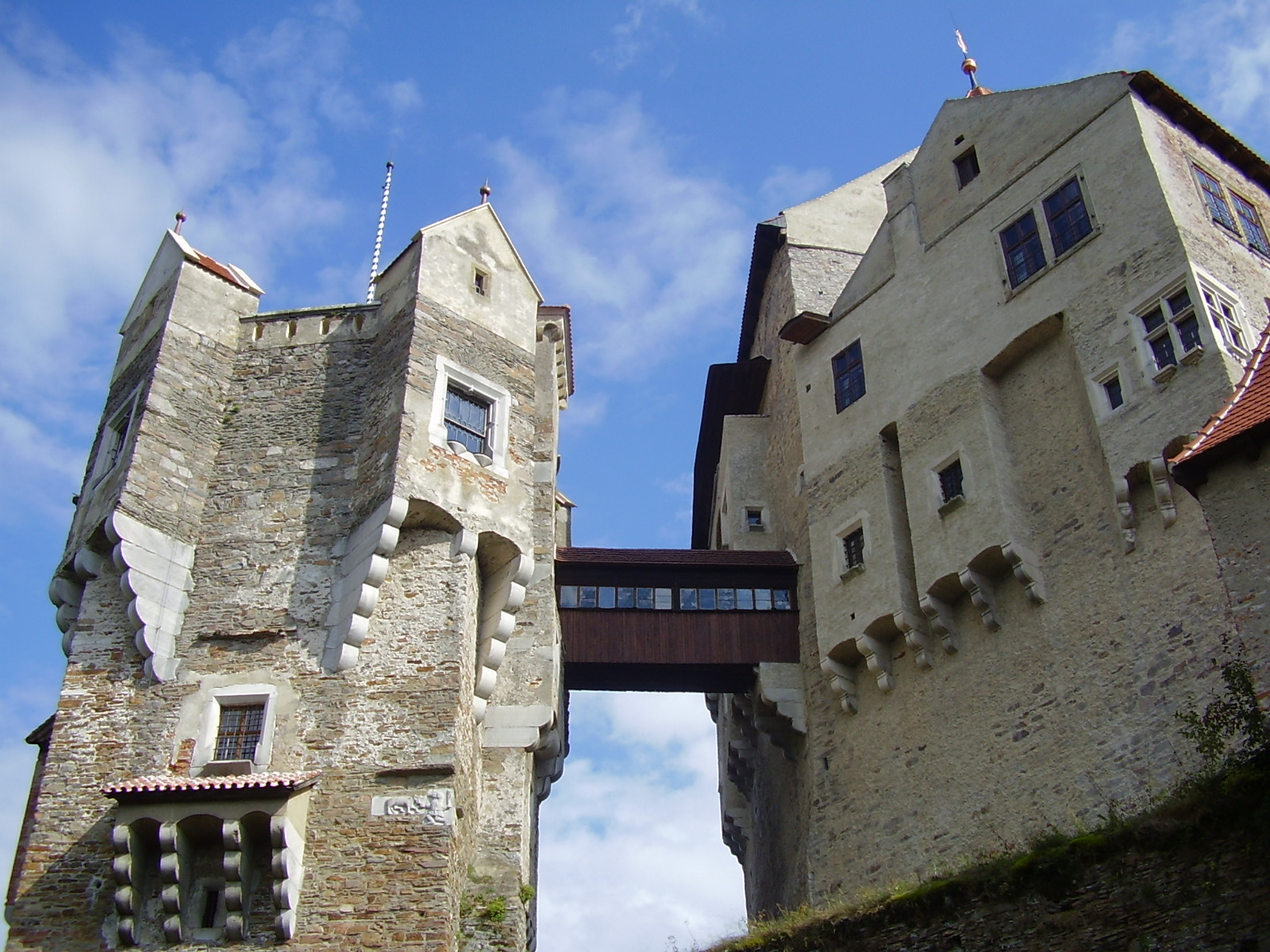 Castle Pernstejn - connecting bridge